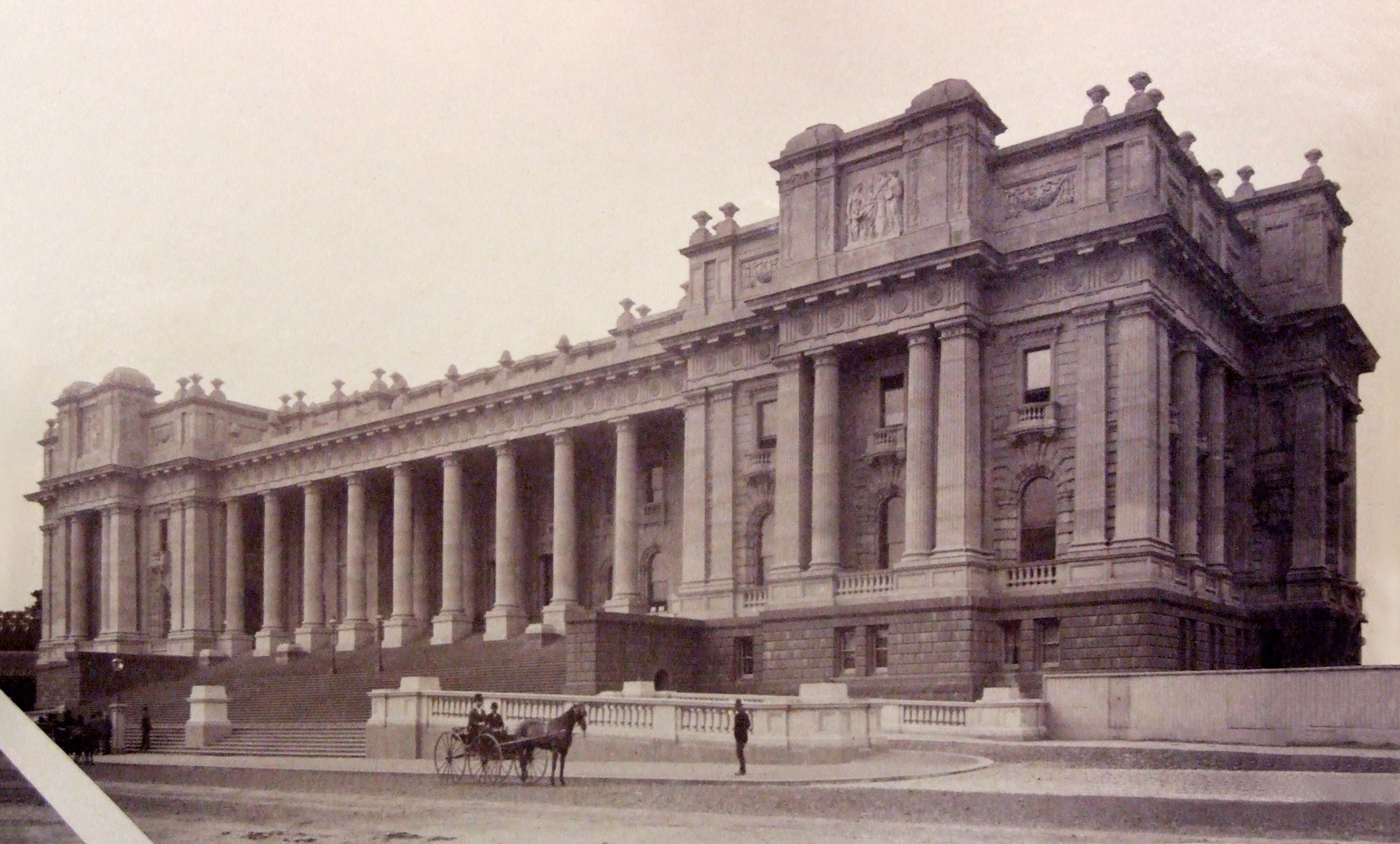 The image is a photo I took in 2014 of a monochrome print in the New South Wales State Library (Mitchell Library ref PXE 800 photo 33b). The subject is the Victorian Parliament, in Melbourne Australia -- a large classical collonaded building with a 4-wheeled phaeton carriage (with 2 people on board) at the front and another person (a policeman?) standing nearby. On the far left are a horse and carriage, and some people, partly obscured by a diagional white band (a photo mount). The print is captioned on its mounting: "Parliament House -- Melbourne as at present -- 1890."